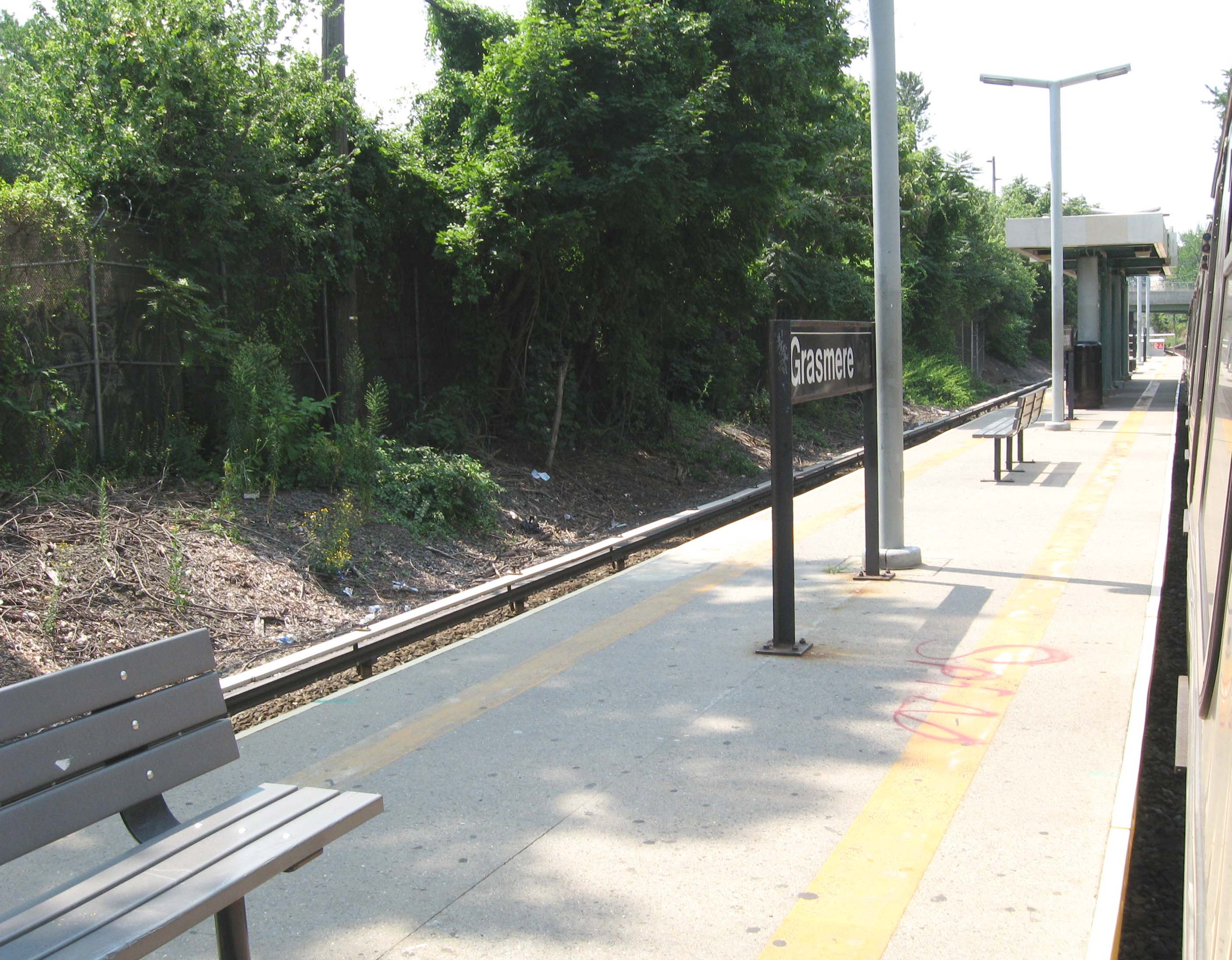 Looking south from southbound car stopped at Grasmere (Staten Island Railway station) on a sunny late morning